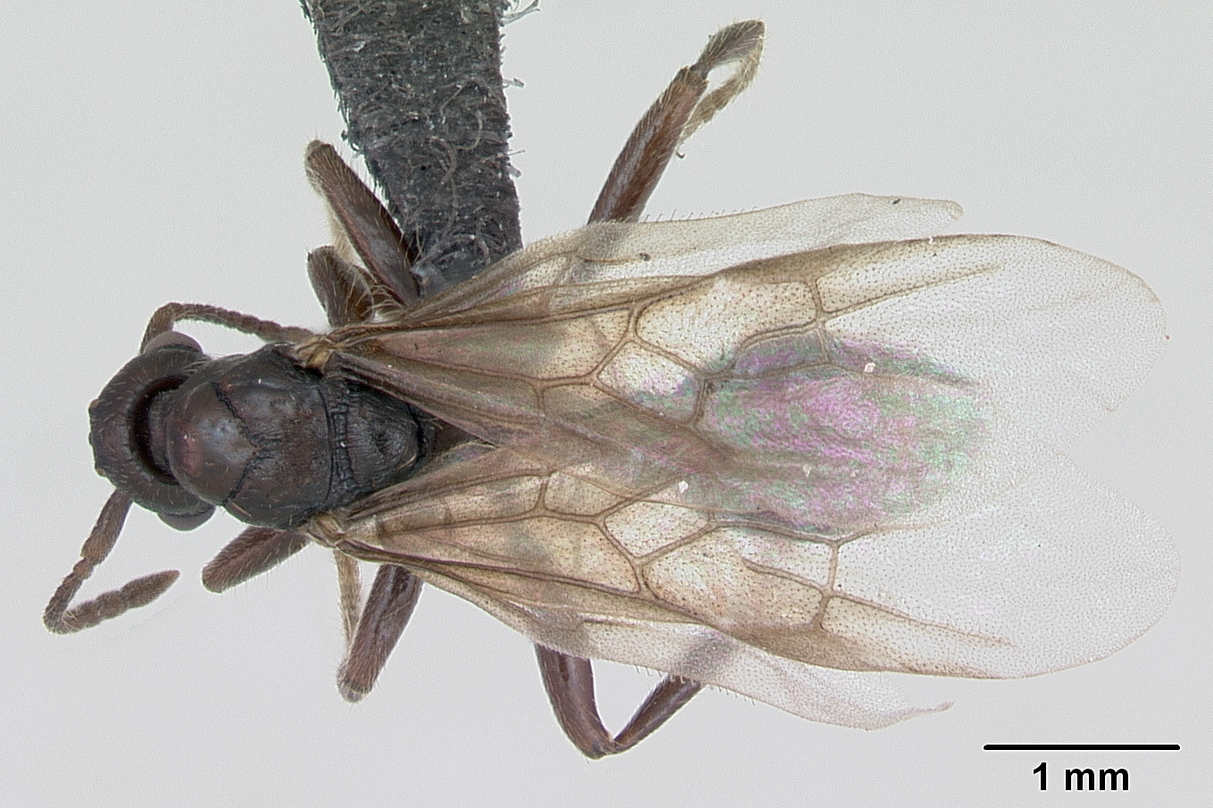 Dorsal view of ant Myrmica sabuleti specimen casent0173178.